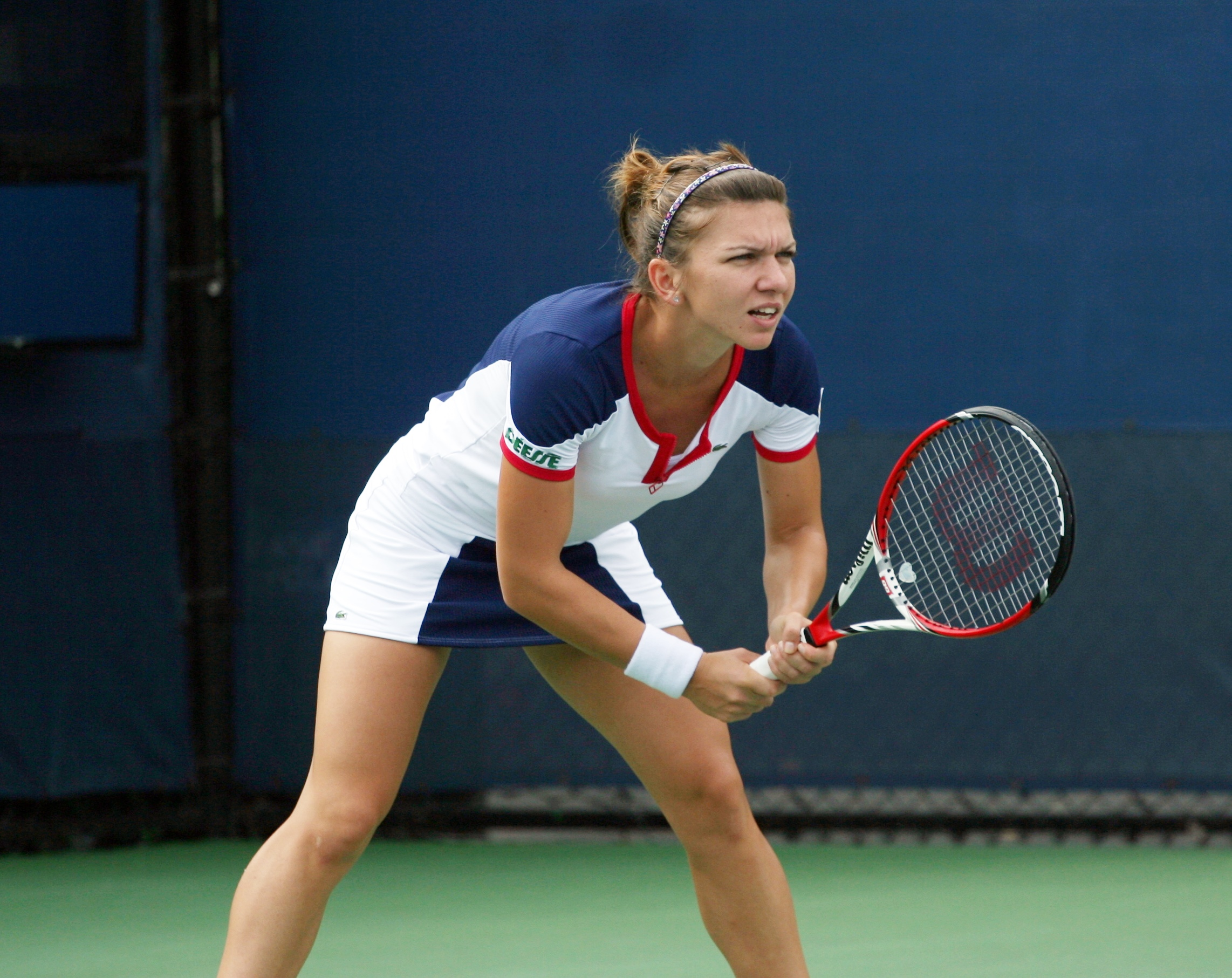 Friday, August 30